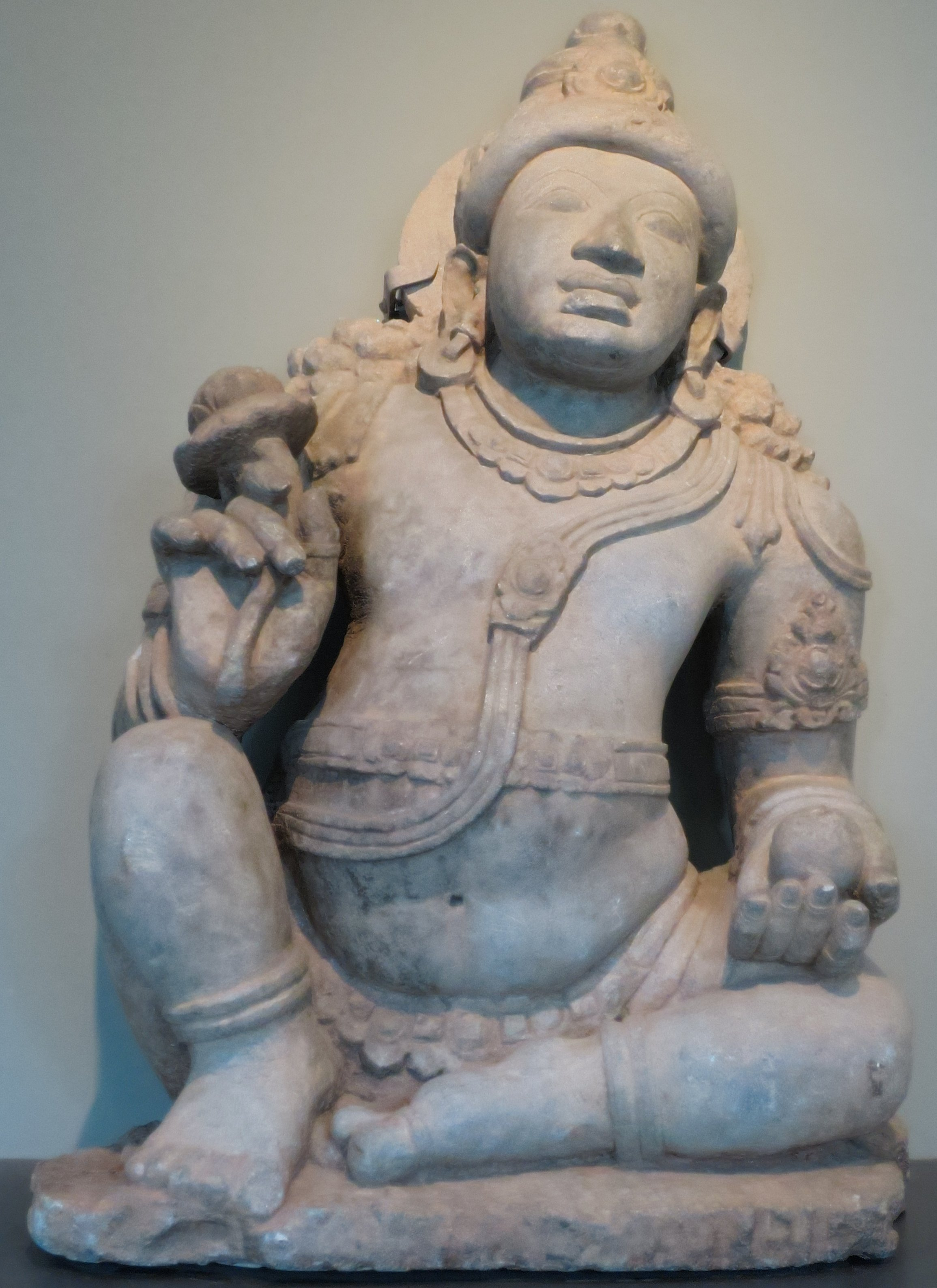 Digambara Yaksha Sarvahna from Karnataka, India, c. 900 CE, schist, Norton Simon Museum